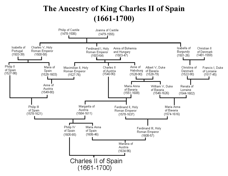 The ancestry of King Charles II of Spain (1661-1700) Created by user:Lec CRP1 Title edited by Cfvh on November 16th, 2006.